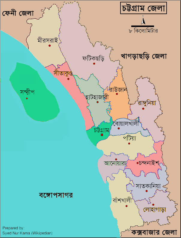 Map of Chittagong